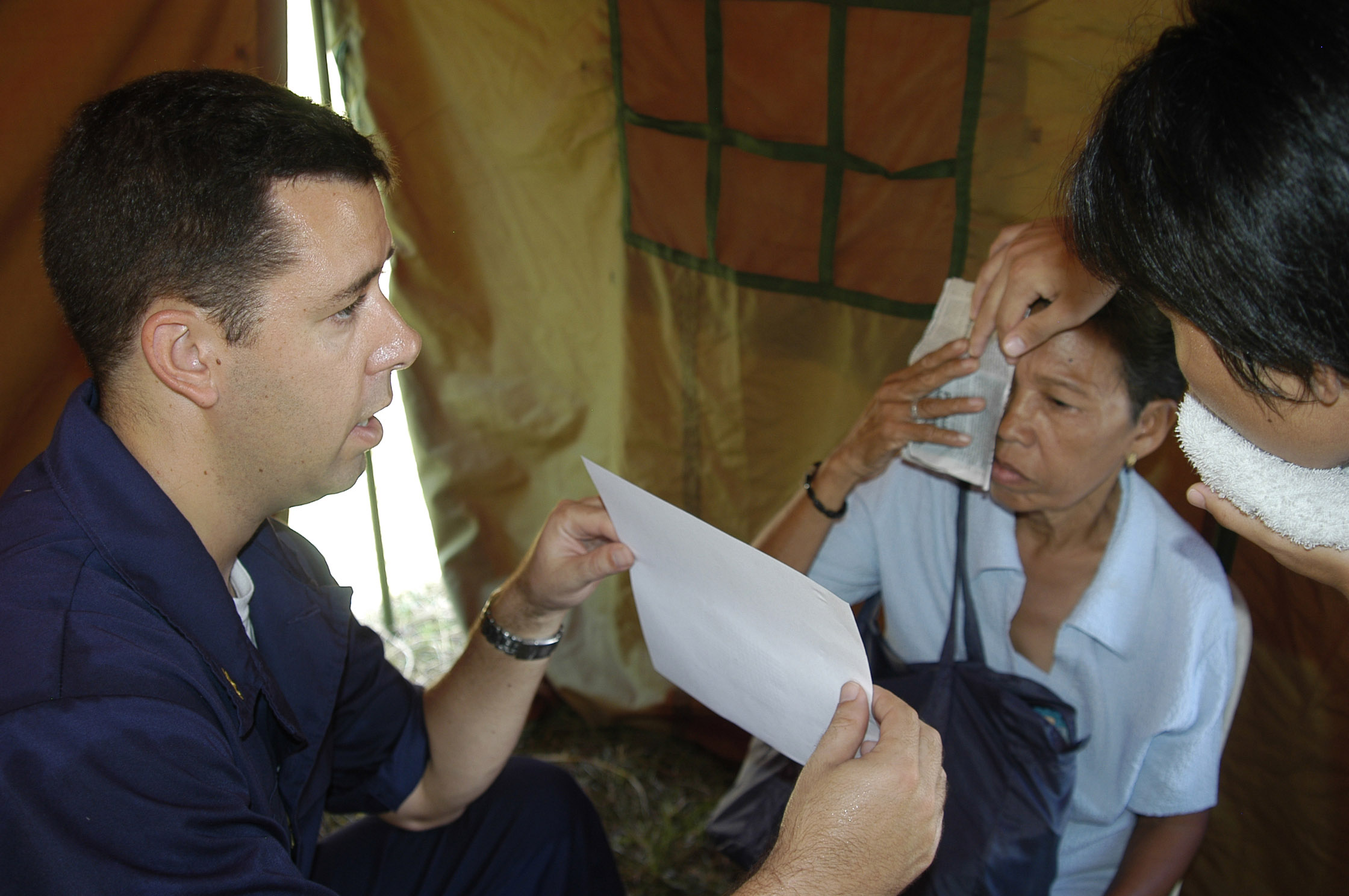 TABACO CITY, Philippines (July 2, 2007) - Cmdr. Matthew Behil performs a routine eye examination on a local patient during a medical civic affairs program (MEDCAP) held at Tabaco Elementary School. The MEDCAP is being conducted throughout the region in support of Pacific Partnership 2007, a four-month humanitarian assistance mission to Southeast Asia and Oceania that will include specialized medical care and various construction and engineering projects. The various civic action programs assist the Philippines in providing local communities with a wide range of services. U.S. Navy photo by Mass Communication Specialist Seaman Patrick D. House (RELEASED)